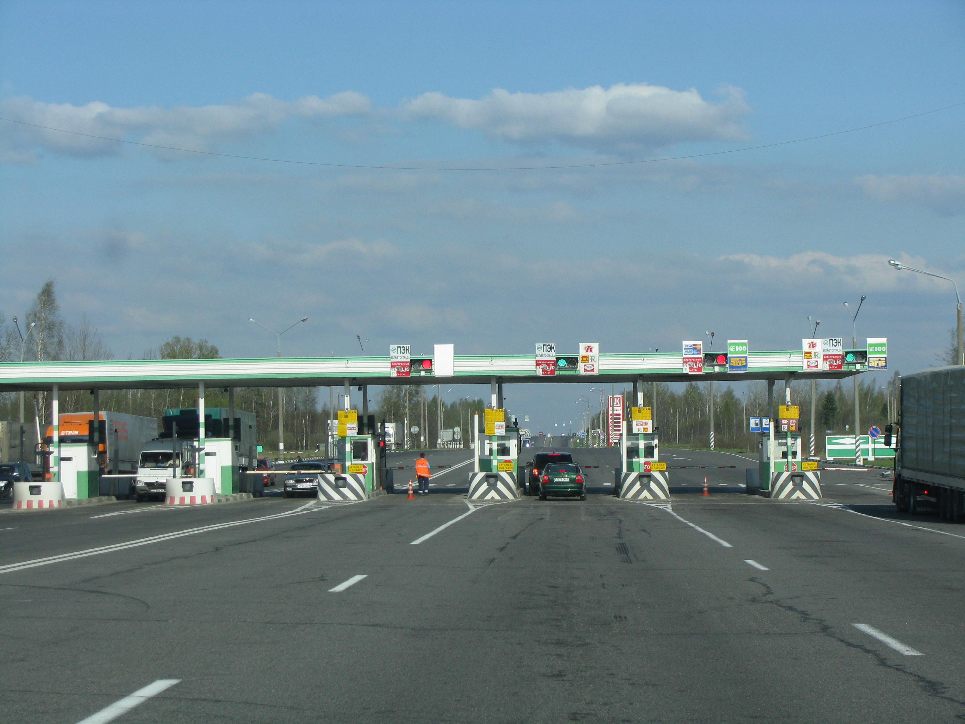 Belarus-Russia border, April 2009